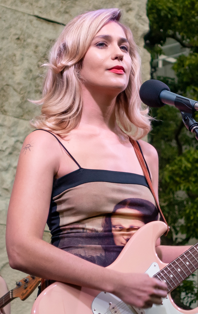 Lola Kirke performing live at the Getty Museum in Los Angeles, California, on Saturday, July 28, 2018.